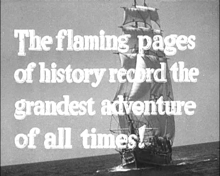 Screenshot from the trailer for the film Mutiny on the Bounty.